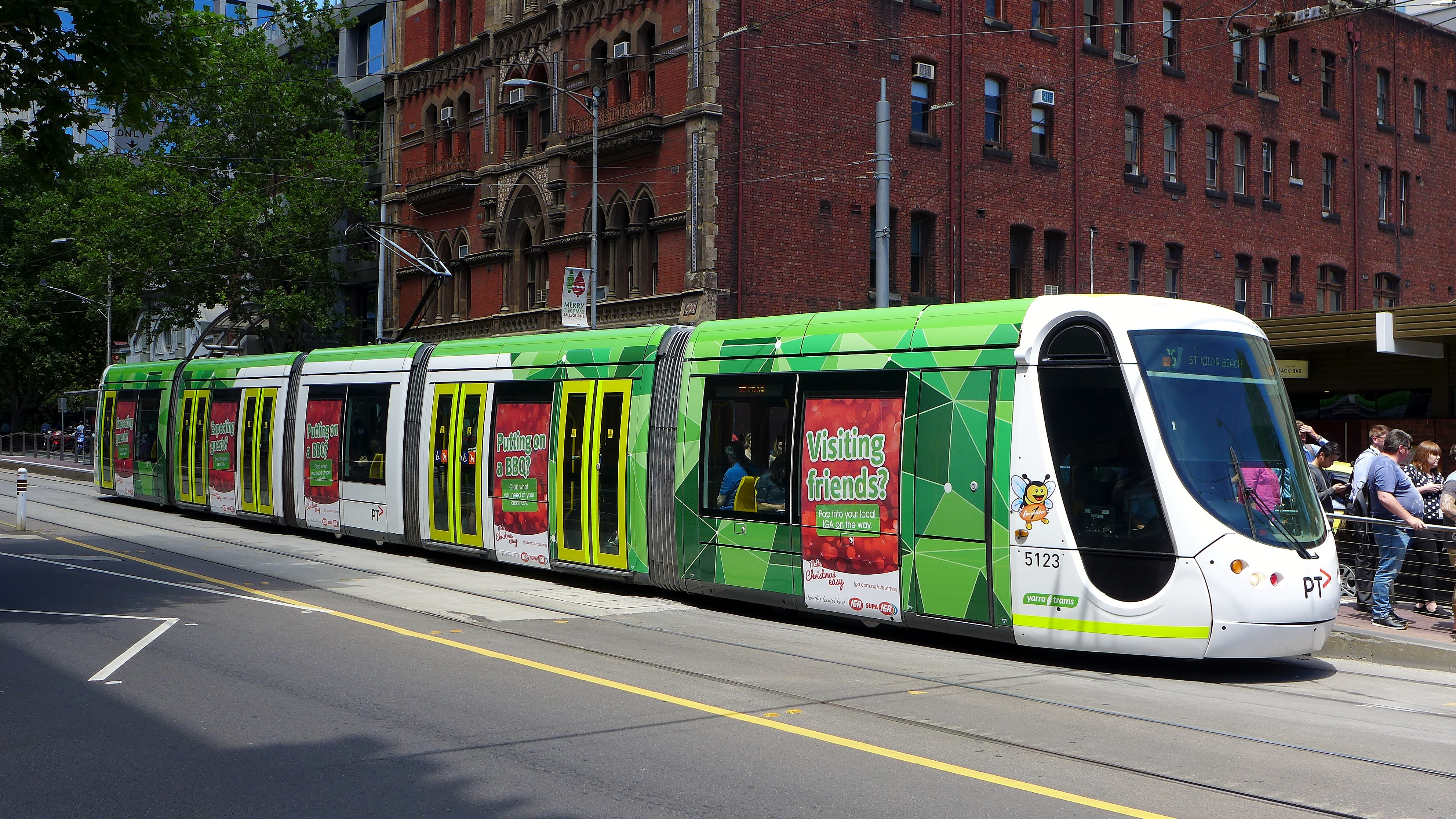 C2 class Citadis tram no 5123 at the Southern Cross Station stop at the west end of Bourke Street, with a route 96 service from East Brunswick to St Kilda Beach in Melbourne, Australia. This particular tram was the first of its class to enter service in Melbourne.